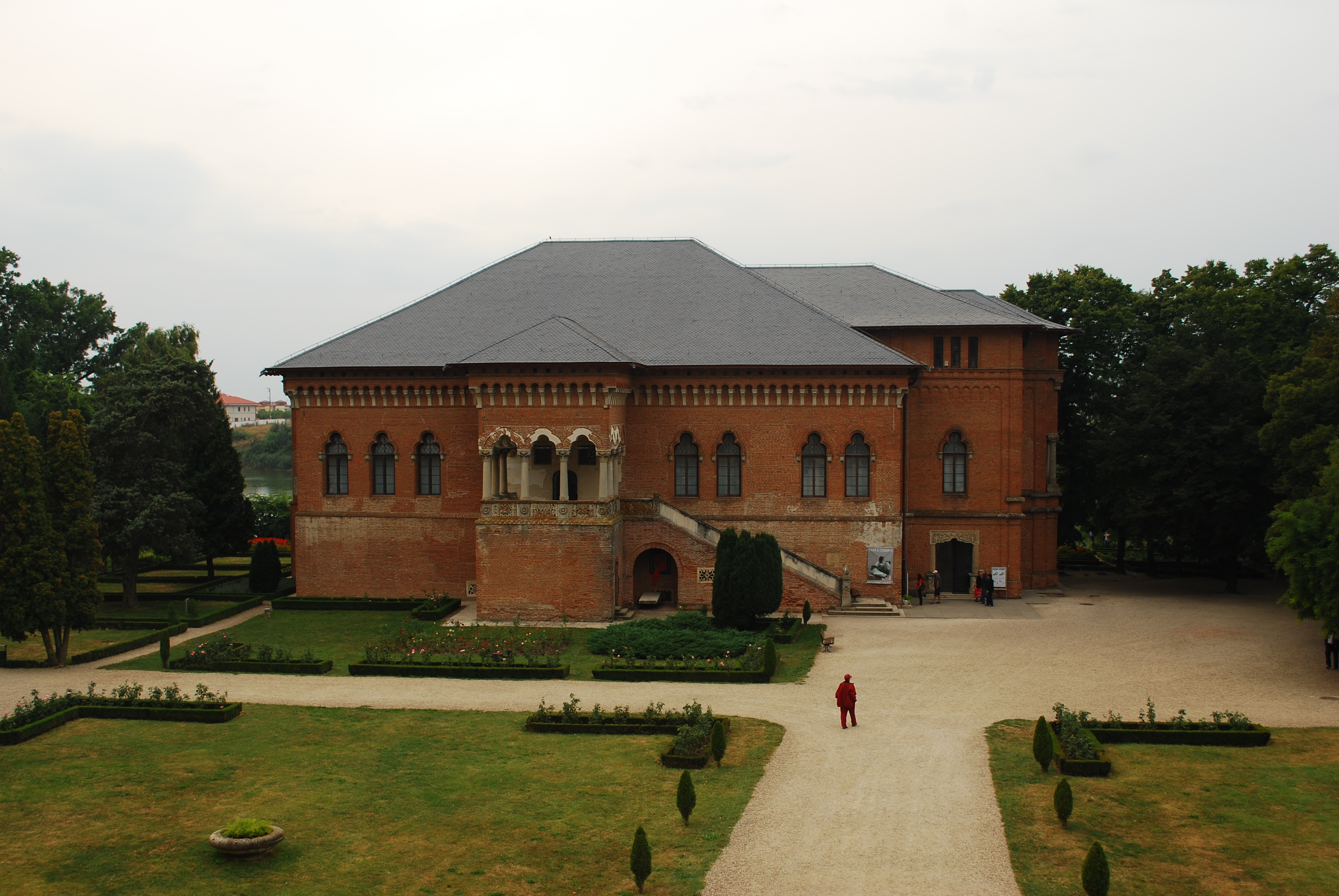 Mogoşoaia palace and its yard, near Bucharest, Romania